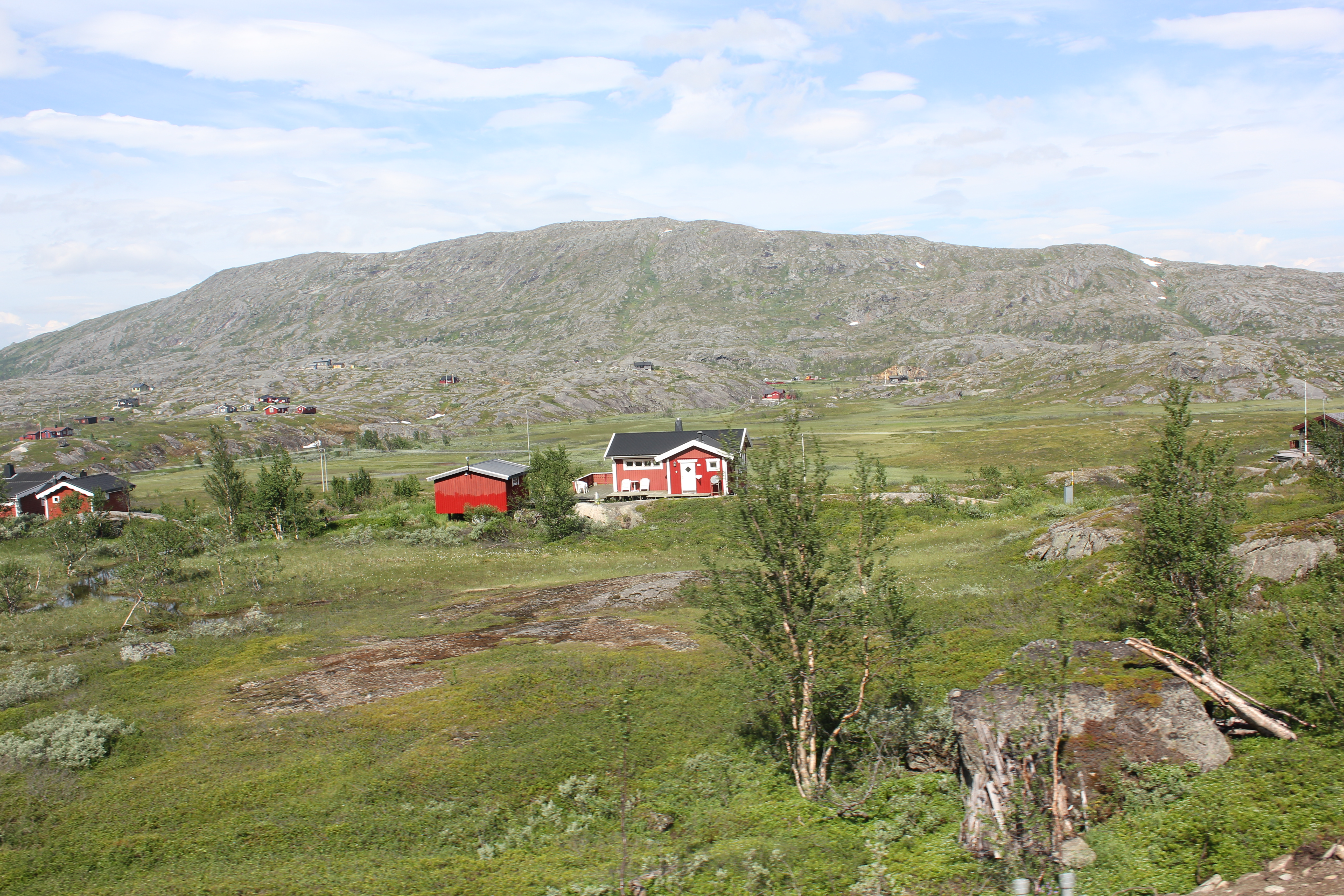 The mountain Bjørnfjell (in background) and some of the many holiday cottages in the Bjørnfjell area around of Bjørnfjell railway station in Narvik, Norway.